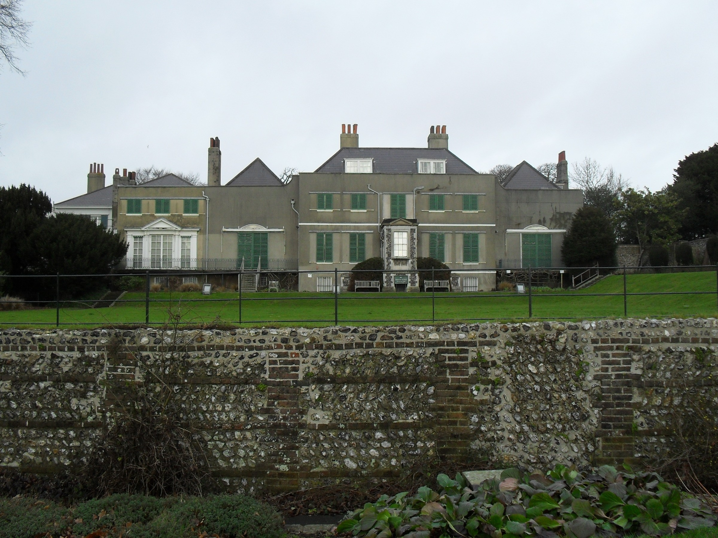 The rear (south) elevation of Preston Manor, Preston Drove, Preston Village, City of Brighton and Hove, East Sussex. The original manor house of Preston, dating from about 1250 but completely rebuilt by the Lord of the Manor in 1738 and remodelled further in 1905. It is now owned by Brighton & Hove City Council. Listed at Grade II* by English Heritage (IoE Code 481074)